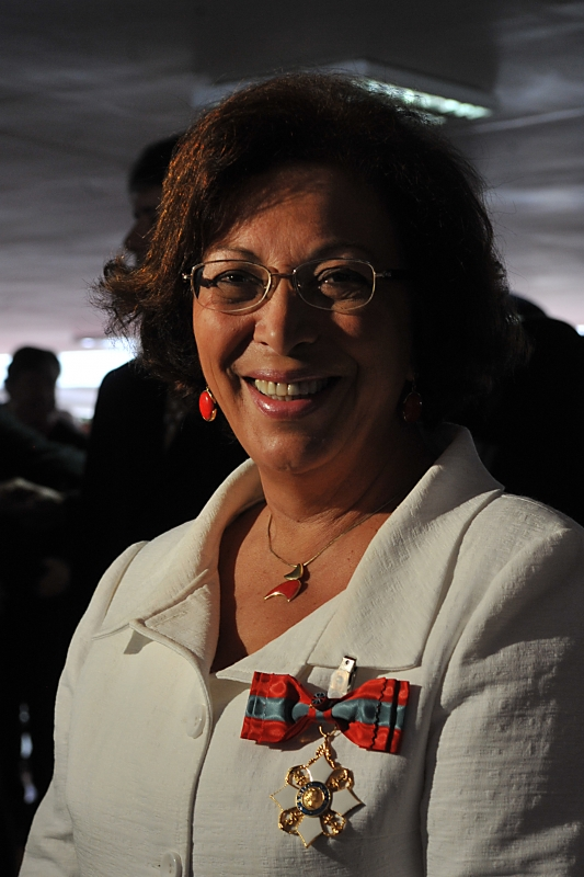 Ideli Salvatti with Medalha da Ordem do Mérito Naval.